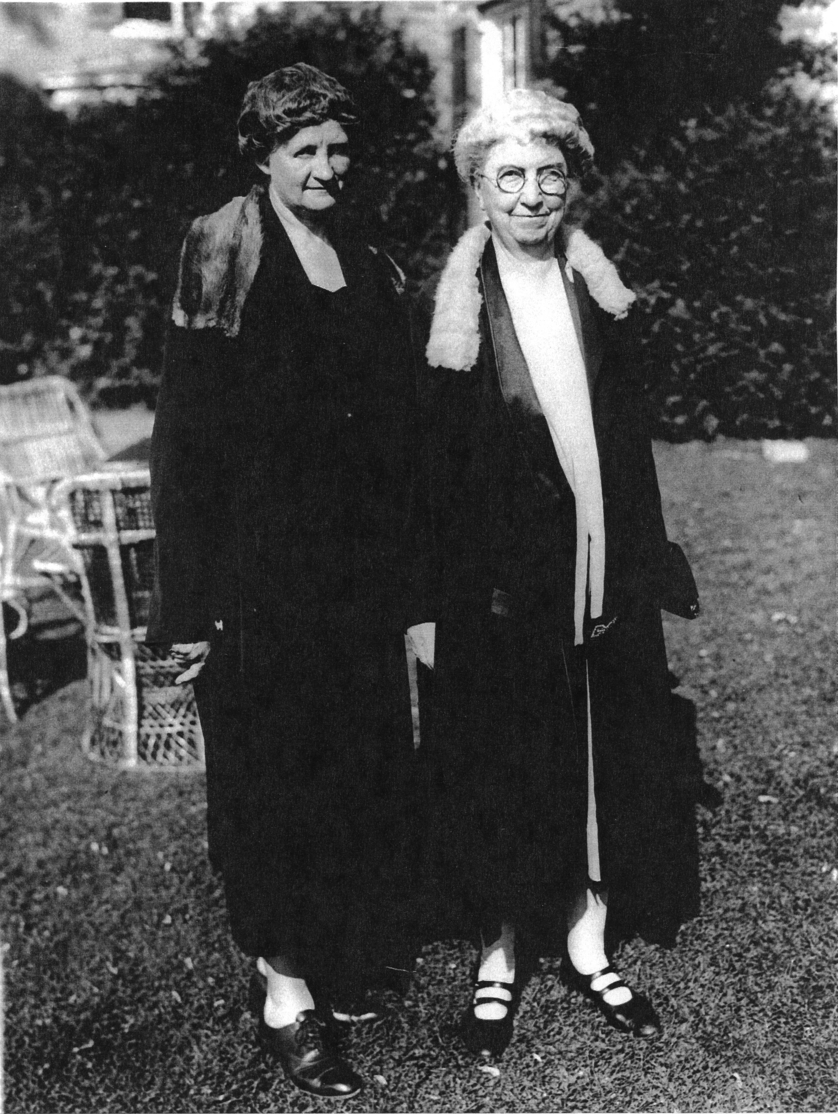 Photo of Martha Van Rensselaer and Flora Rose at a meeting of the League of Women Voters at the home of Mrs. Franklin D. Roosevelt in Hyde Park in the 1920's.